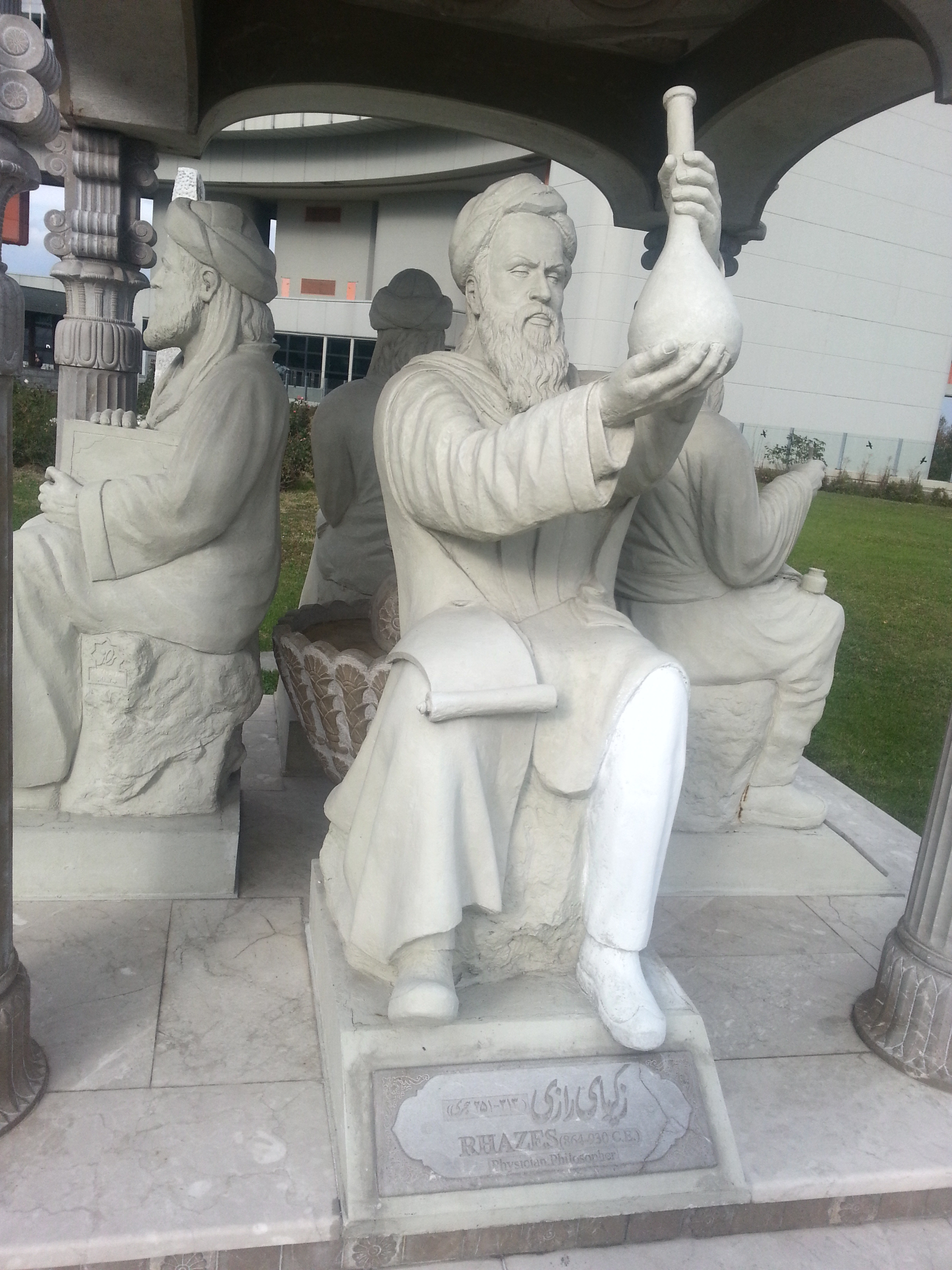 Persian Scholar Pavilion in Vienna International Centre donated by Iran. Jun 2009